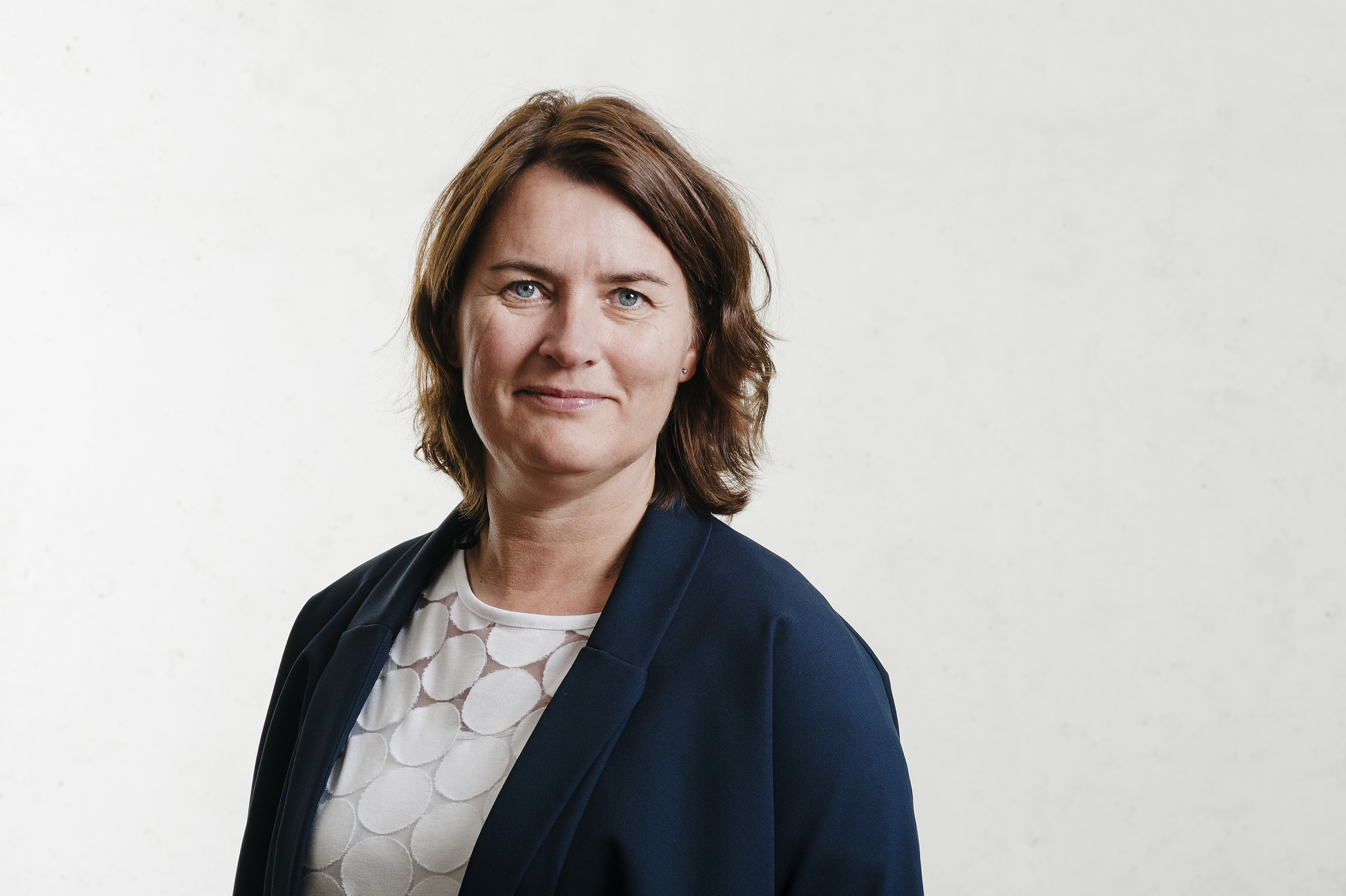 Hege Elisabeth Valås, 2. nestleder i Utdanningsforbundet 2016-2019 (Sentralstyremedlem i Utdanningsforbundet 2013-2015).